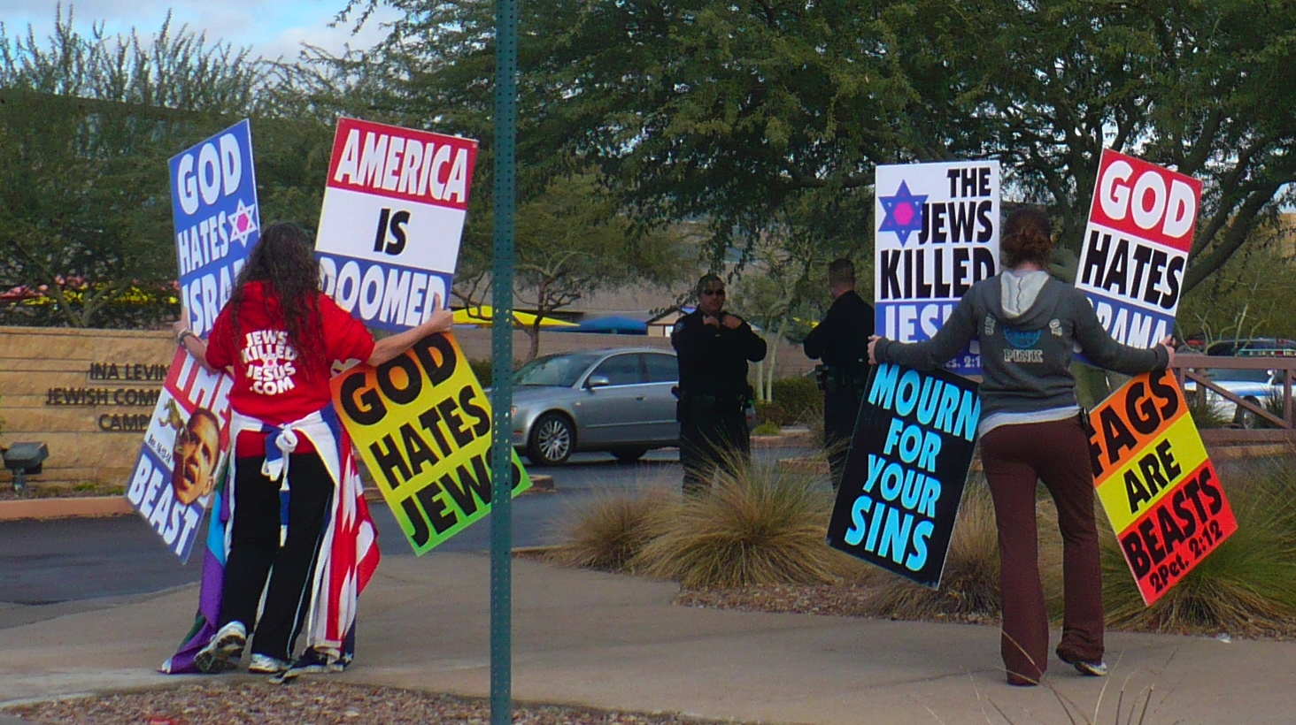 Westboro Baptists Picketing a Jewish Community Center